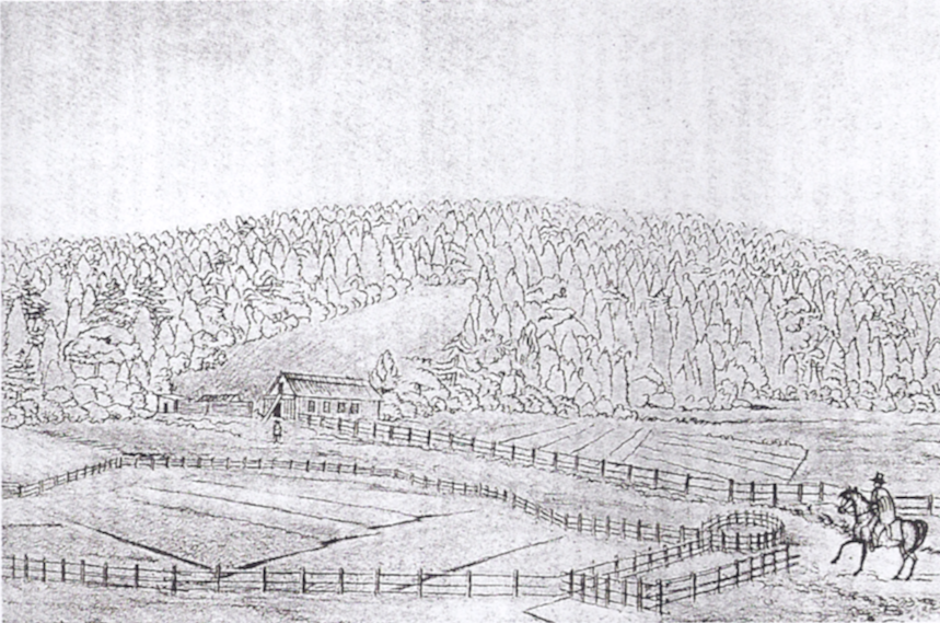 Sketch of the Chernykh Ranch by I. G. Voznesenskii, 1841. Only known view of an inland Russian farm in California.